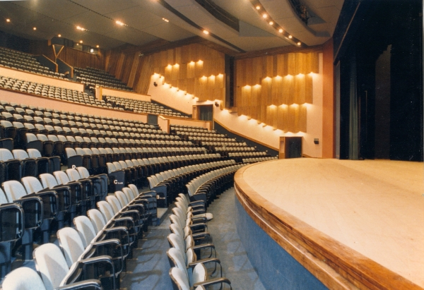 Salao-apos-reforma